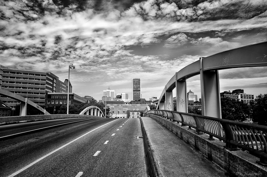 The black tower in the middle is the Stock Exchange Tower (Tour de la Bourse). The bridge is crossing the Lachine Canal.